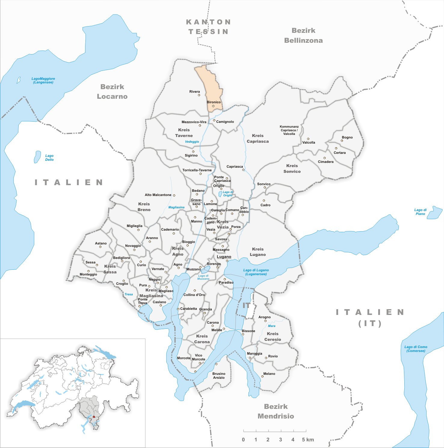 Municipality Bironico